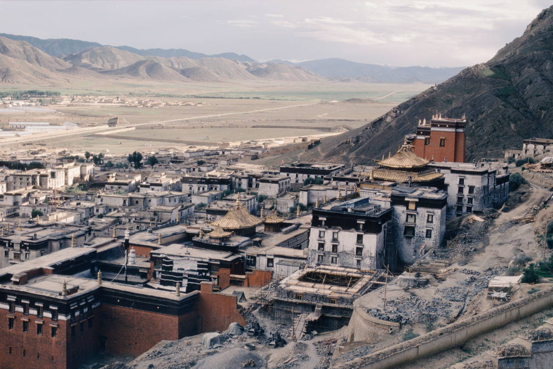 Tashilhunpo Monestary, Tibet 1985བོད་ཡིག: བཀྲ་ཤིས་ལྷུན་པོ་